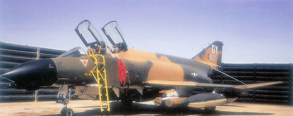 F-4D 65-0683 of the 555th Tactical Fighter Squadron / 432d Tactical Recon Wing - Udon Royal Thai Air Force Base.